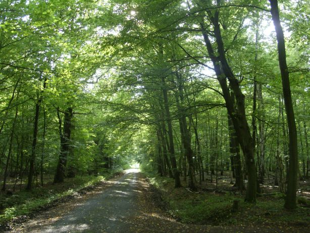 Riddagshausen nature reserve in Braunschweig, Germany